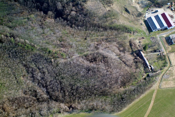 Szécsényke castle, Hungary, aerial photography